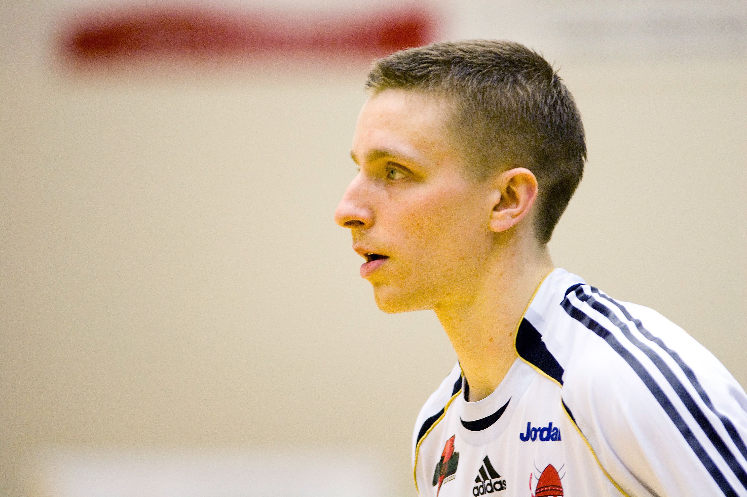 Finnish floorball player Tero Tiitu playing for Salibandyseura Viikingit against NST-Lappeenranta at Lappeenrannan Urheilutalo in Lappeenranta, Finland during the Finnish floorball league quarterfinals.